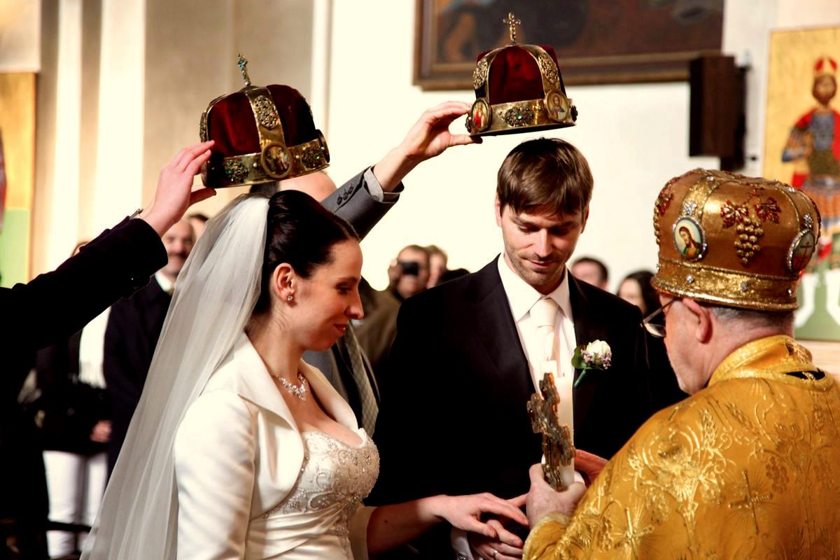 Orthodox wedding, Cathedral of Ss. Cyrill and Methodius, Prague, Czechia